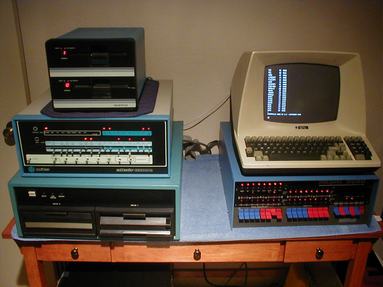 A collection of 70's era microcomputers: Altair 8800B, IMSAI 8080, 8 inch and 5.25 inch floppy drives, and a Televideo monitor.